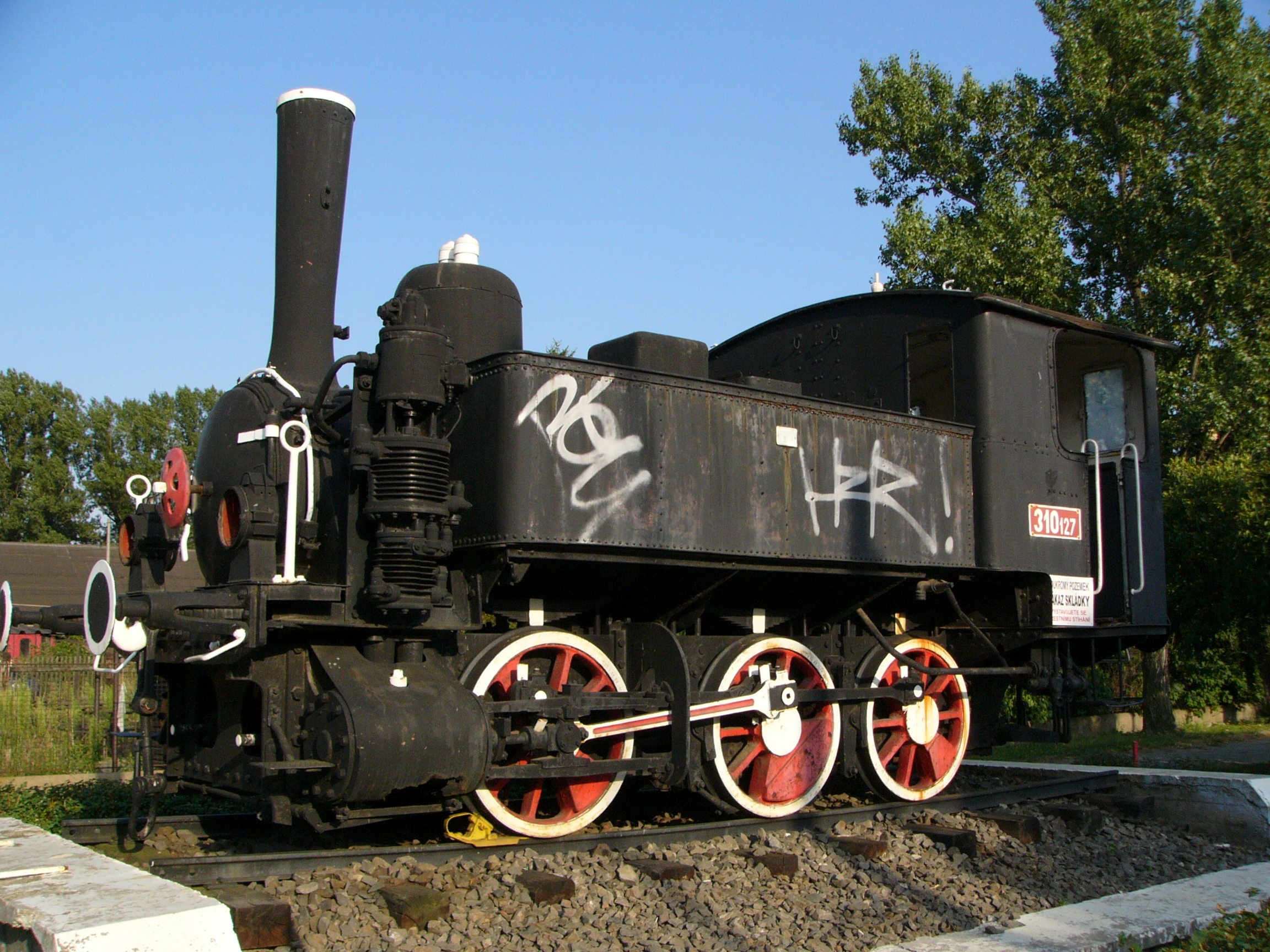 Steam locomotive 310.1 (310.127) in Prostějov (the Czech Republic).